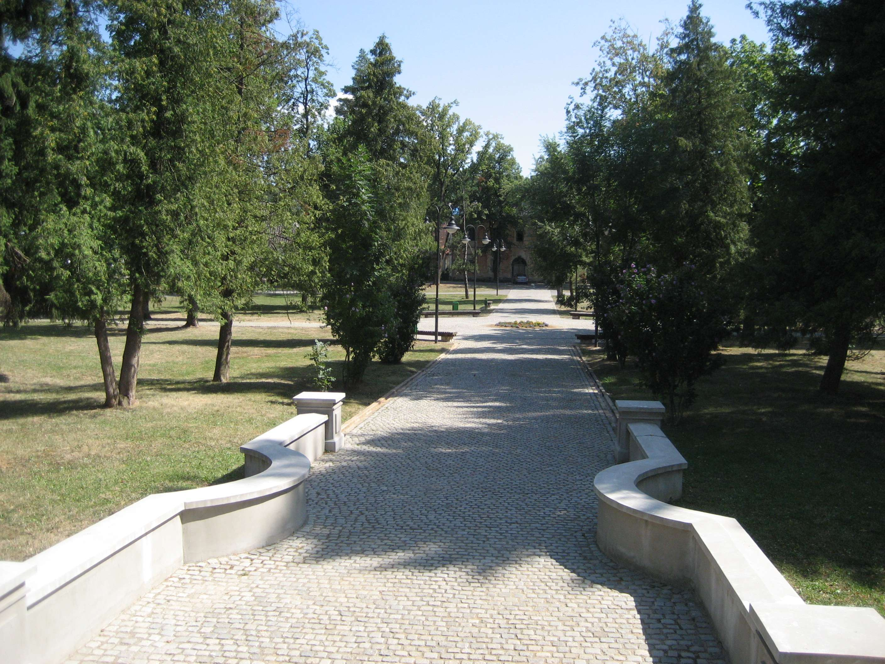 Park in Otocac